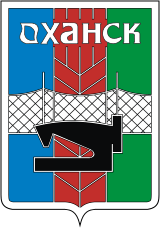 Okhansk (Perm krai), coat of arms (1980)